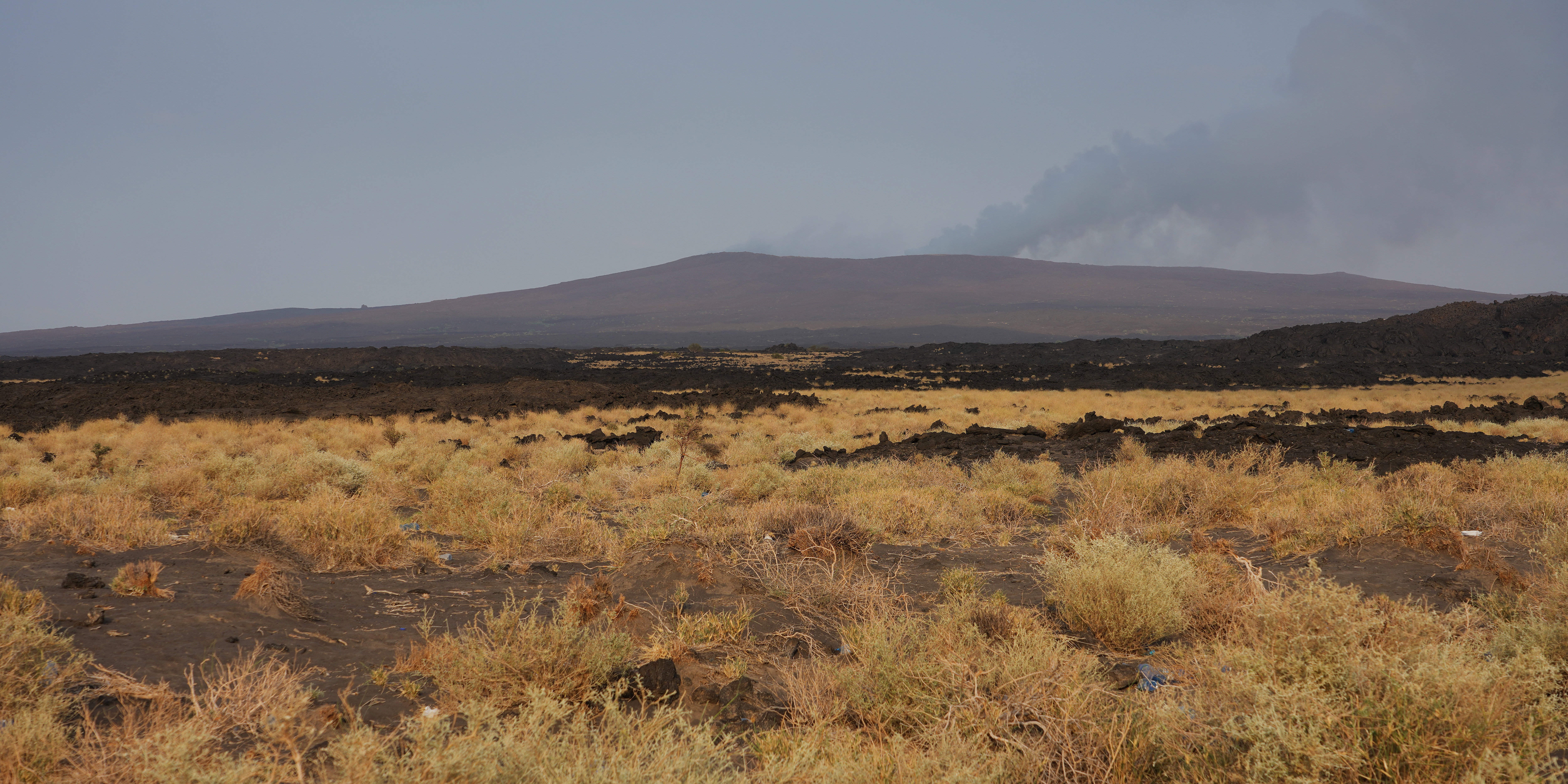 View to Erta Ale volcano, Afar Region, Ethiopia